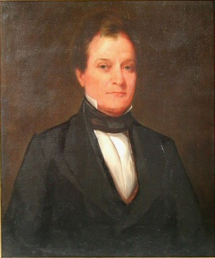 William B. Campbell (1807–1867), American soldier and politician.